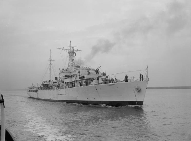 Photograph of Royal Navy despatch vessel HMS Surprise (K346).